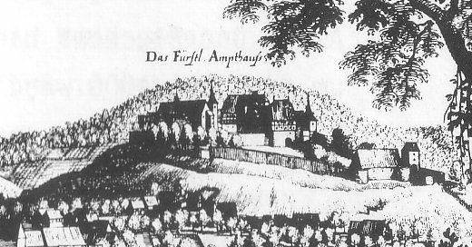 castle in a historical engraving of Lauenstein, Lower Saxony, Germany (cropped)